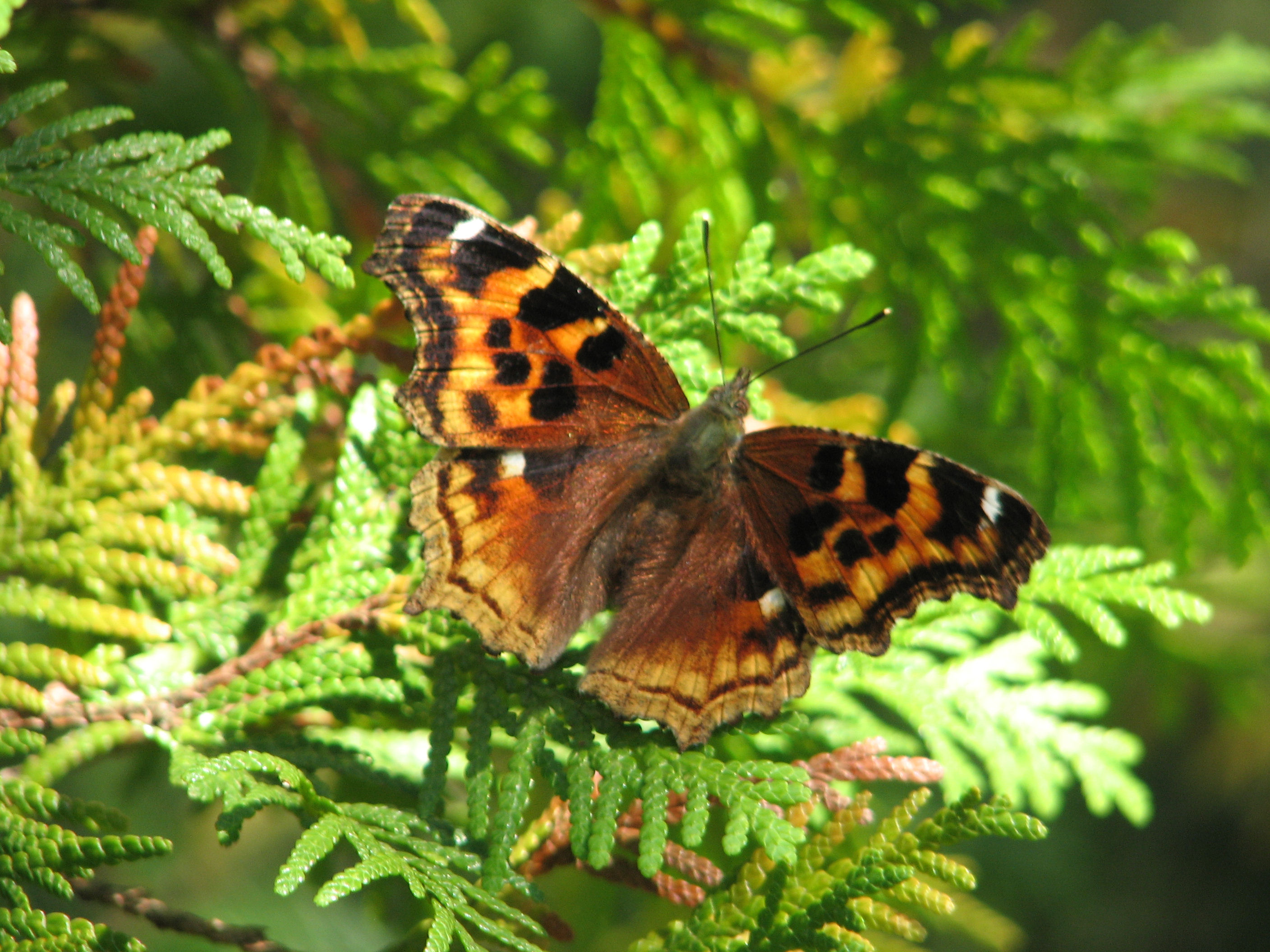 Compton tortoiseshell (Nymphalis vaualbum) taken in Lady Evelyn-Smoothwater Provincial Park, Temagami, Ontario